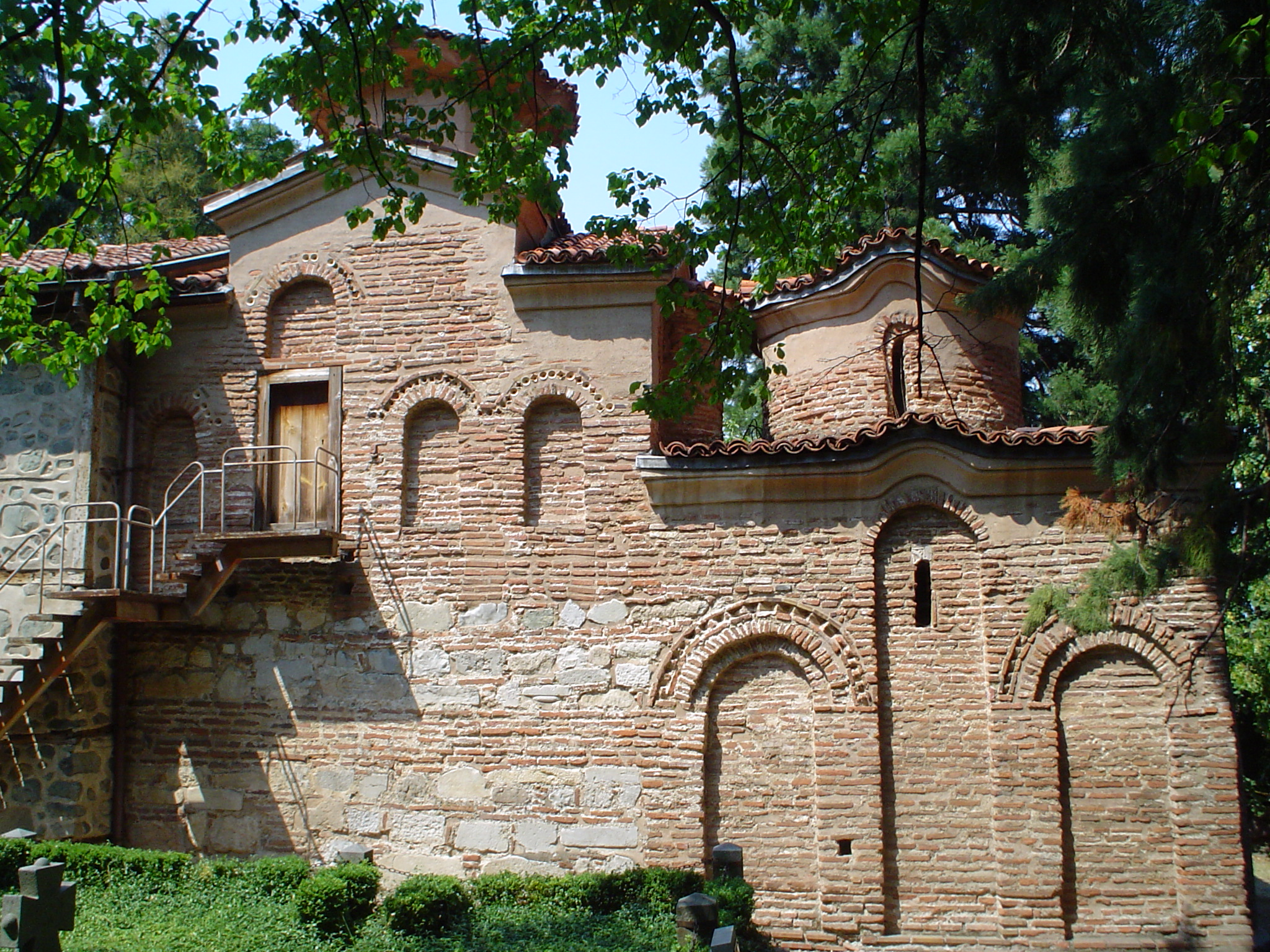 2007-07-26 Boyana, BG: Boyana Church, famed for its Mediaeval frescoes. The unknown painter rejected the traditional schematic Byzantian style and opted instead for a realism not seen again until Giotto ushered in the Italian Rennaisance.